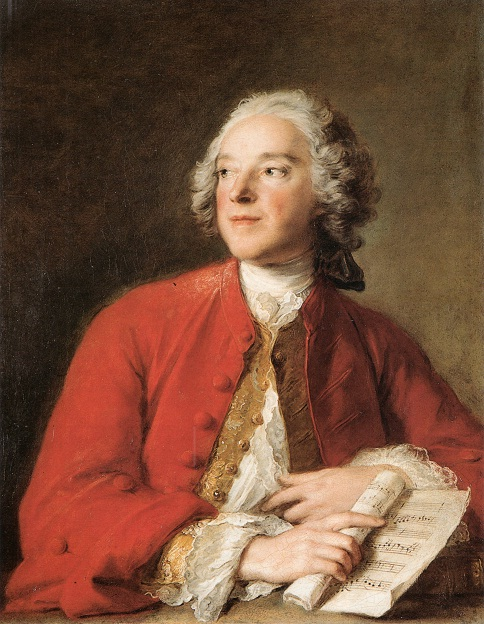 Depicted person: Pierre Augustin Caron de Beaumarchais (1732–1799), French dramatist